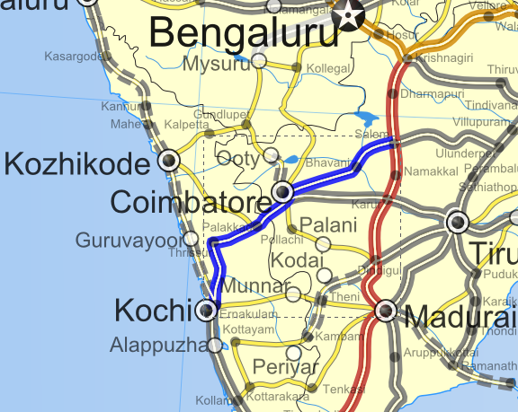 National Highway 544 that runs from Salem to Kochi